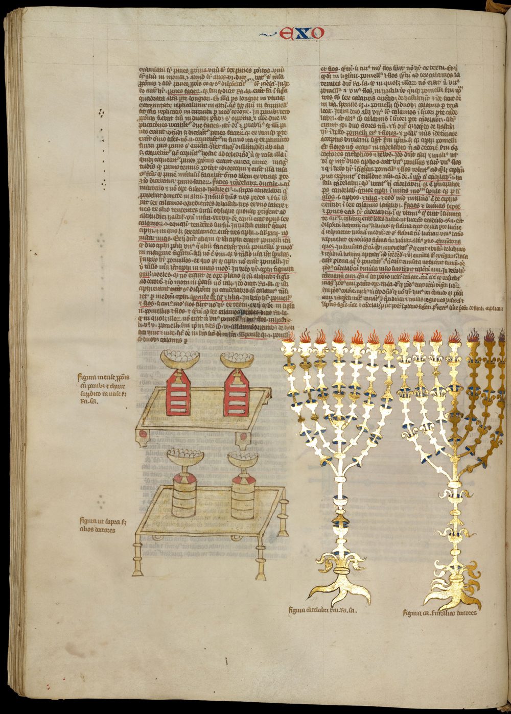 Nicholas of Lyra, Commentary on the Bible, Genesis To Ecclesiastes. French manuscript from the late 14th century. MS. Bodl. 251, fols. 49v. In this commentary, Nicholas of Lyra contrasts Jewish and Christian understandings of the table of the shewbread and the Menorah. Captions under the Menorah distinguish that drawn by “Rabbi Salomon” (Rashi) at left from that drawn “according to other learned men” at right.